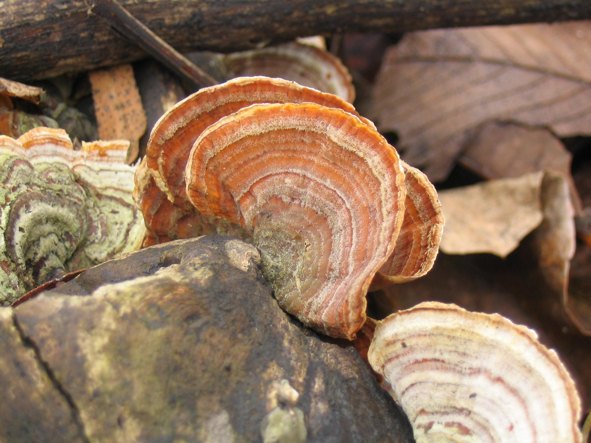 Fungus on Fungus: If you look at this in its full size you can see that the redish polypore has whitish fungus growing on it. The one in the lower right is almost completely covered.